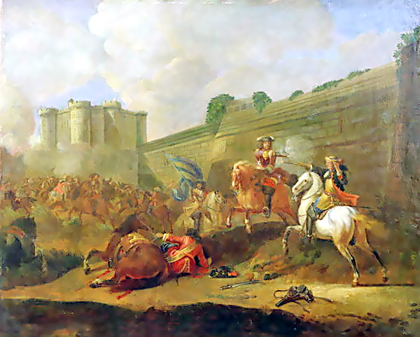 Episode of the Fronde at the Faubourg Saint-Antoine by the Walls of the Bastille.